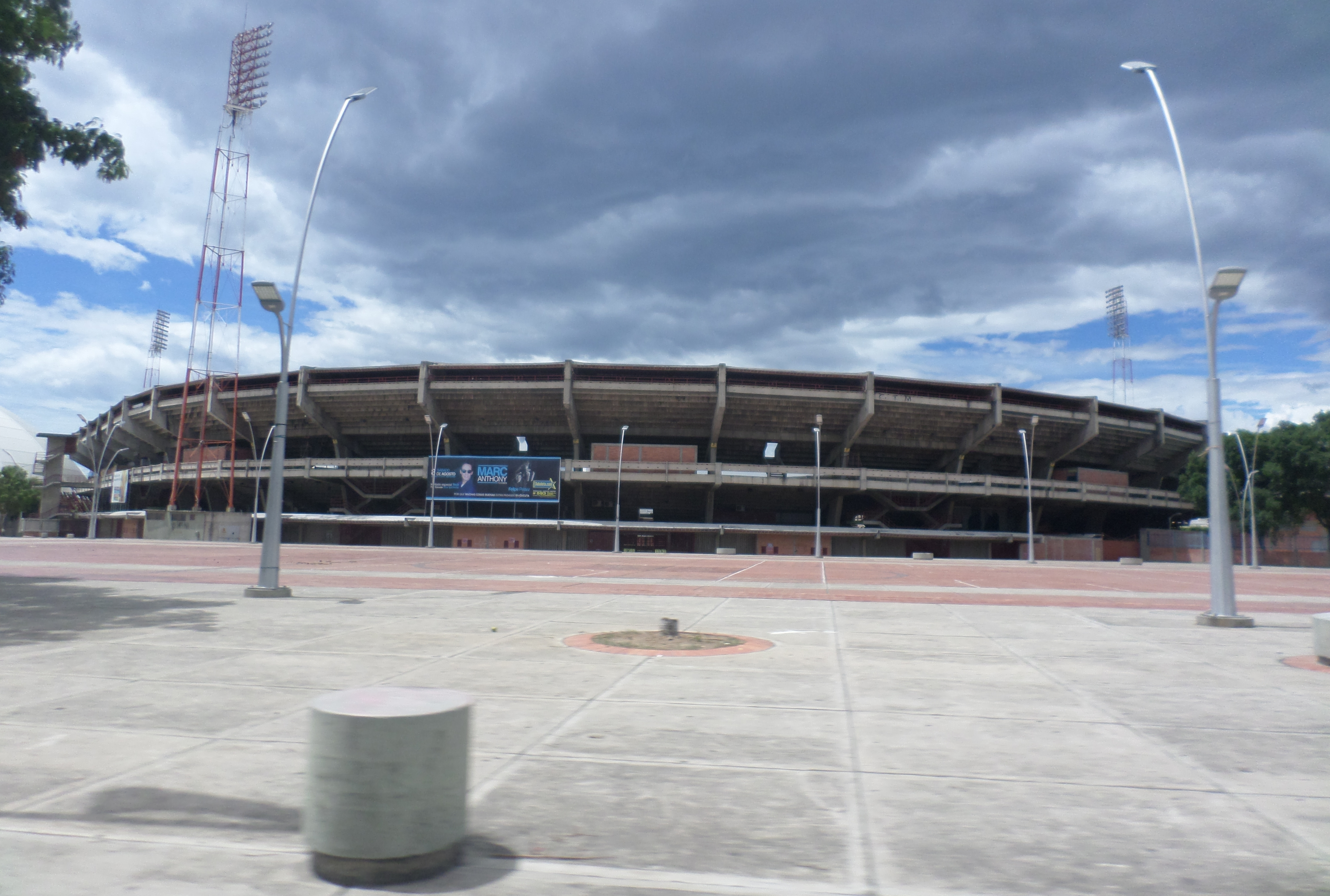 Estadio GS de Cúcuta Col